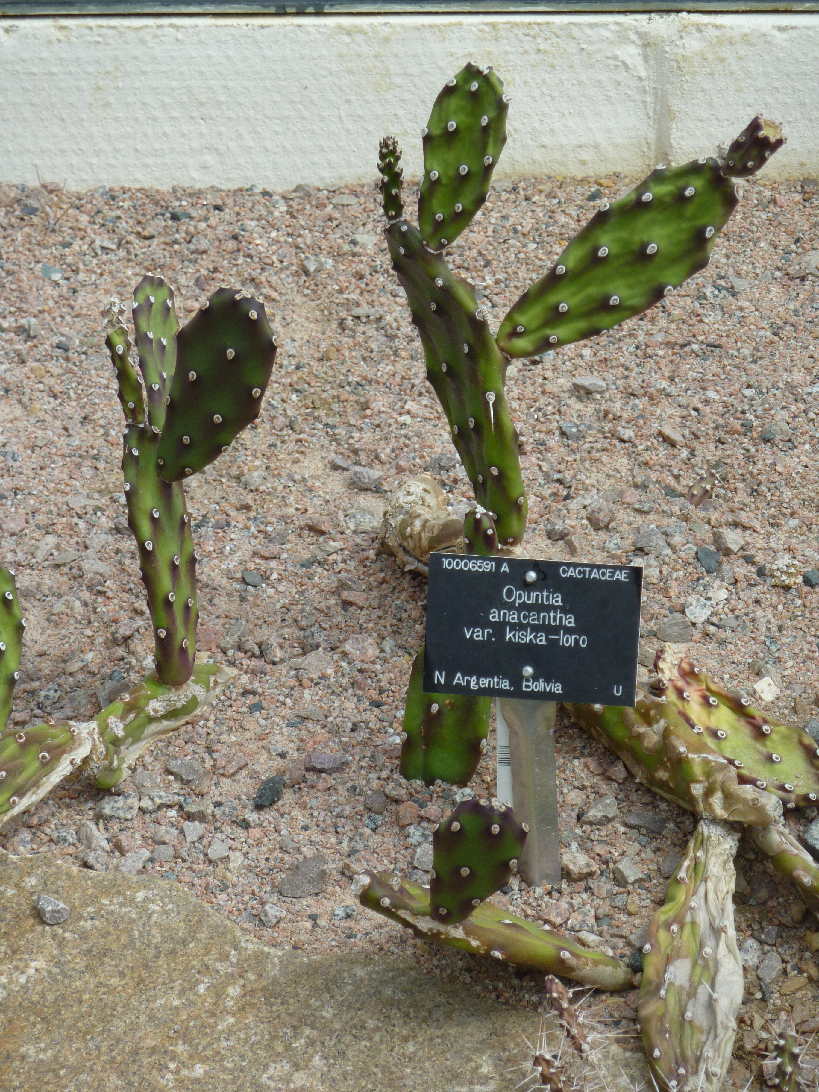 Taken in the Cambridge University Botanic Garden